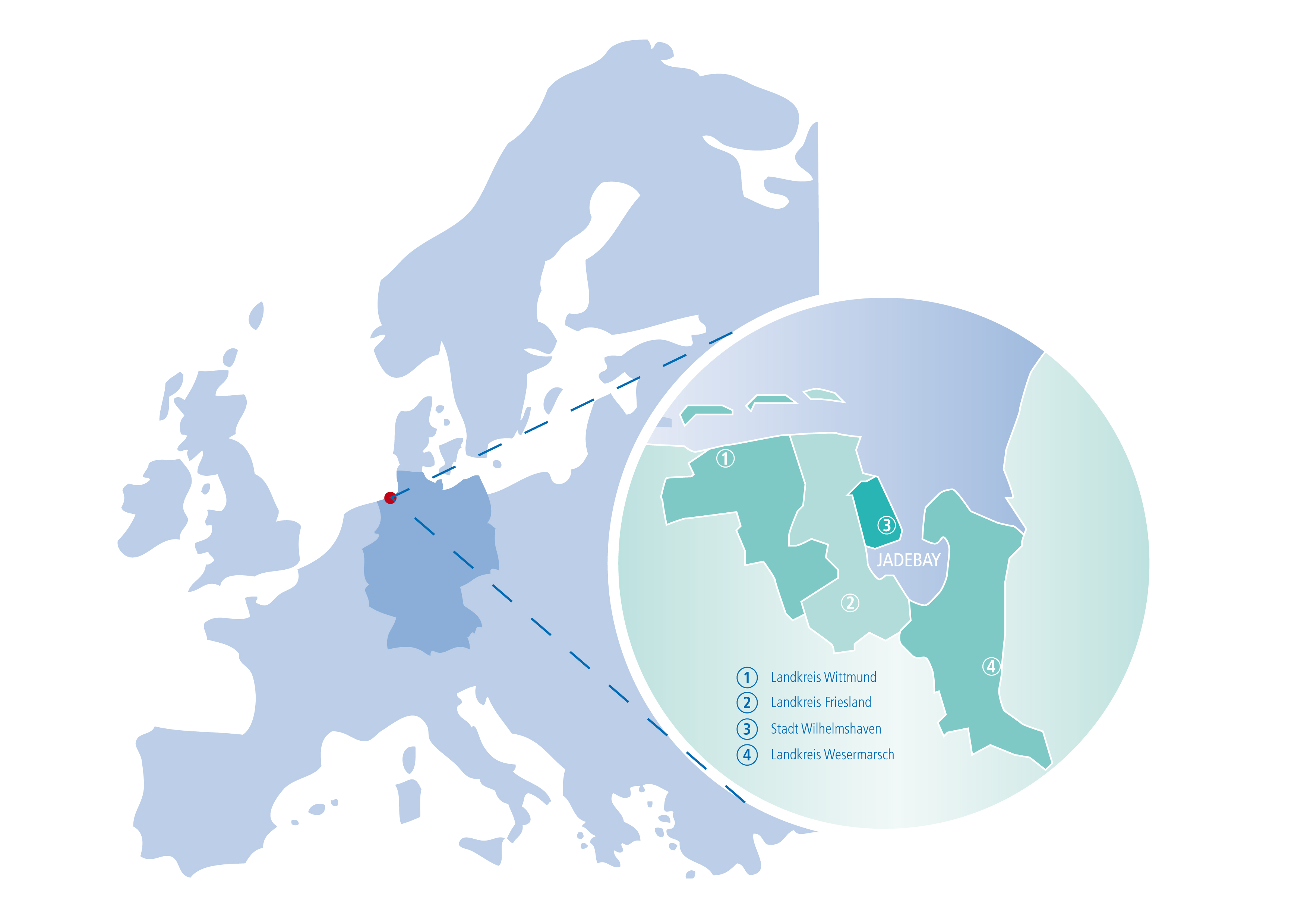 JadeBay Region